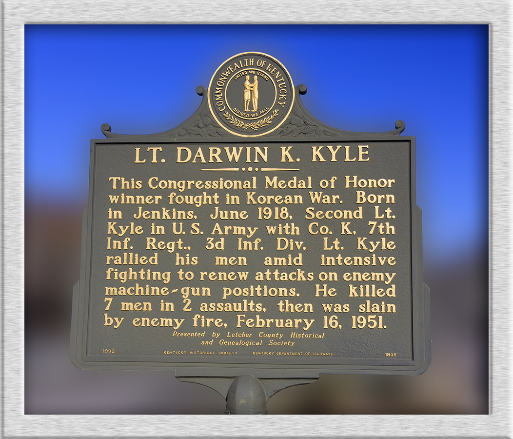 Congressional Medal of Honor Winner Darwin K. Kyle Historical Marker in Jenkins, Kentucky